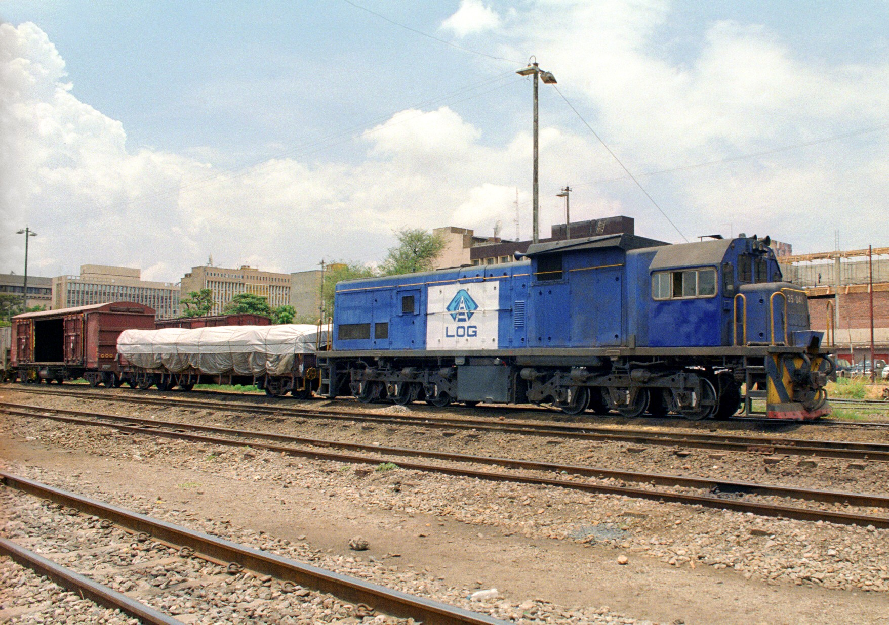 Spoornet's no. 35-041, in use by NLPI LOG in Zambia, on shunt duty in the Lusaka Station Yard